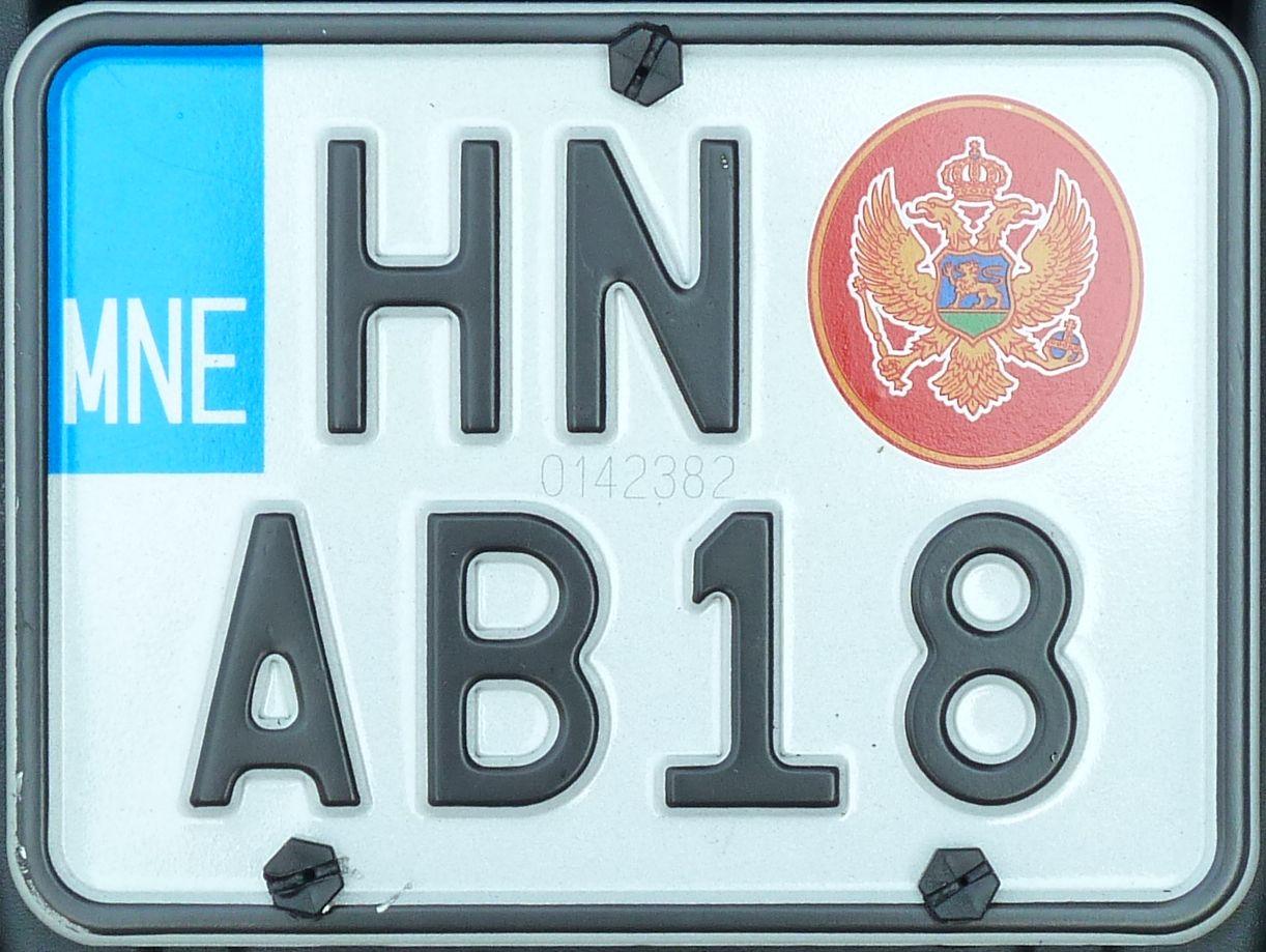 Montenegrian license plate for small motorcycles since 2008, HN = Herceg Novi